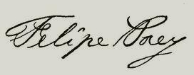 Felipe Poey's signature